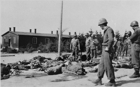 American soldiers view the bodies of prisoners that lie strewn along the road in the newly liberated Ohrdruf concentration camp.